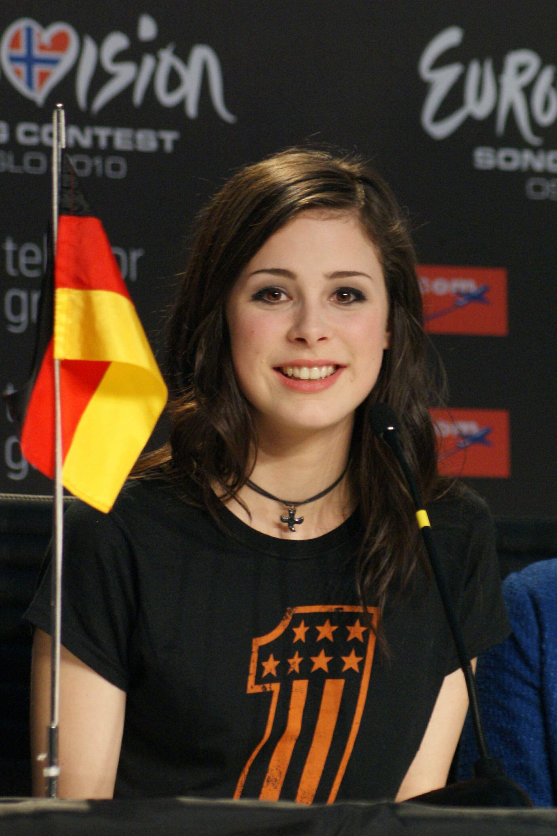 Lena Meyer-Landrut as № 1 at the press conference after the Eurovision Song Contest Oslo 2010.